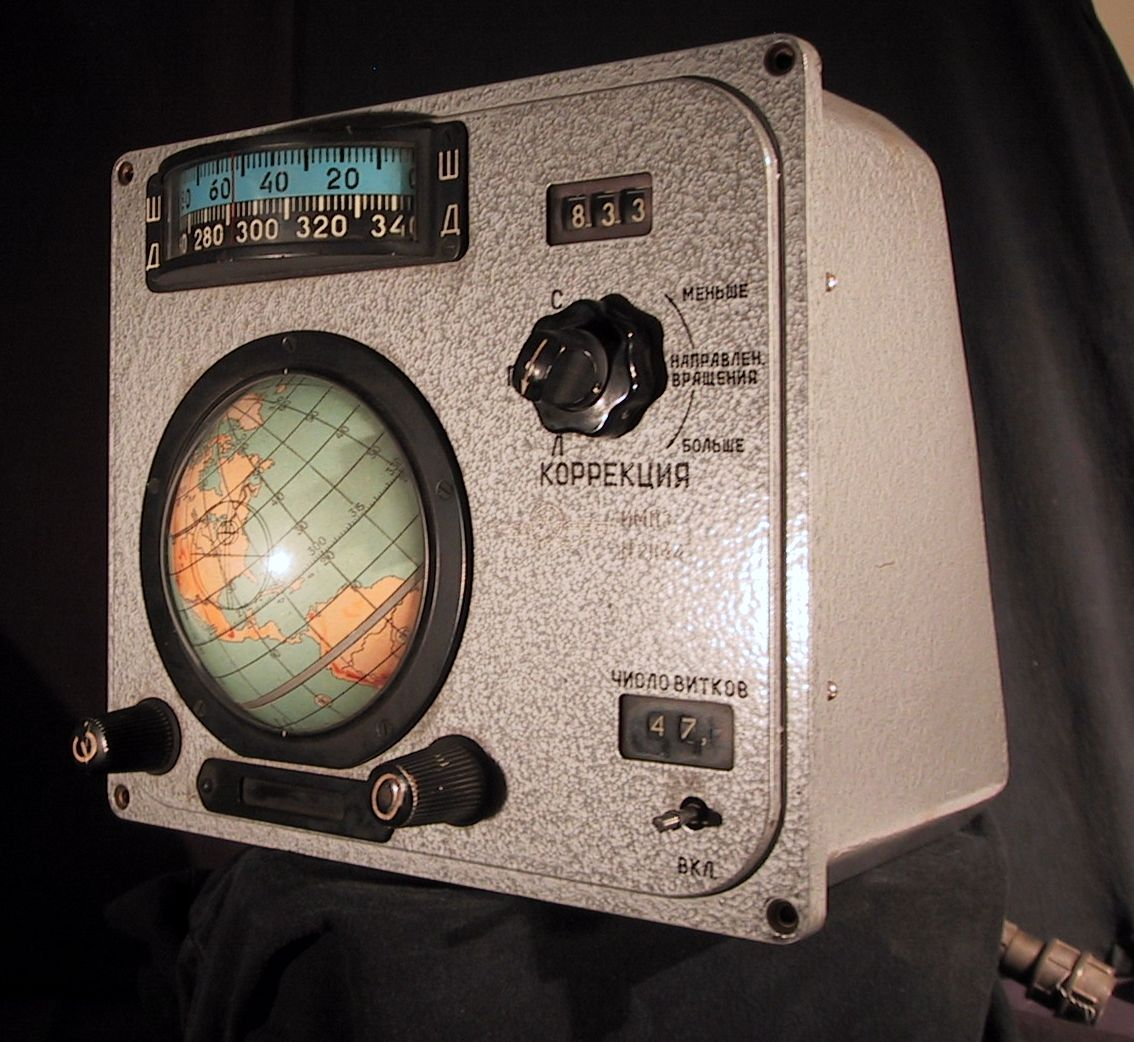 Voskhod spacecraft IMP "Globus" navigation instrument, full view (private collection)